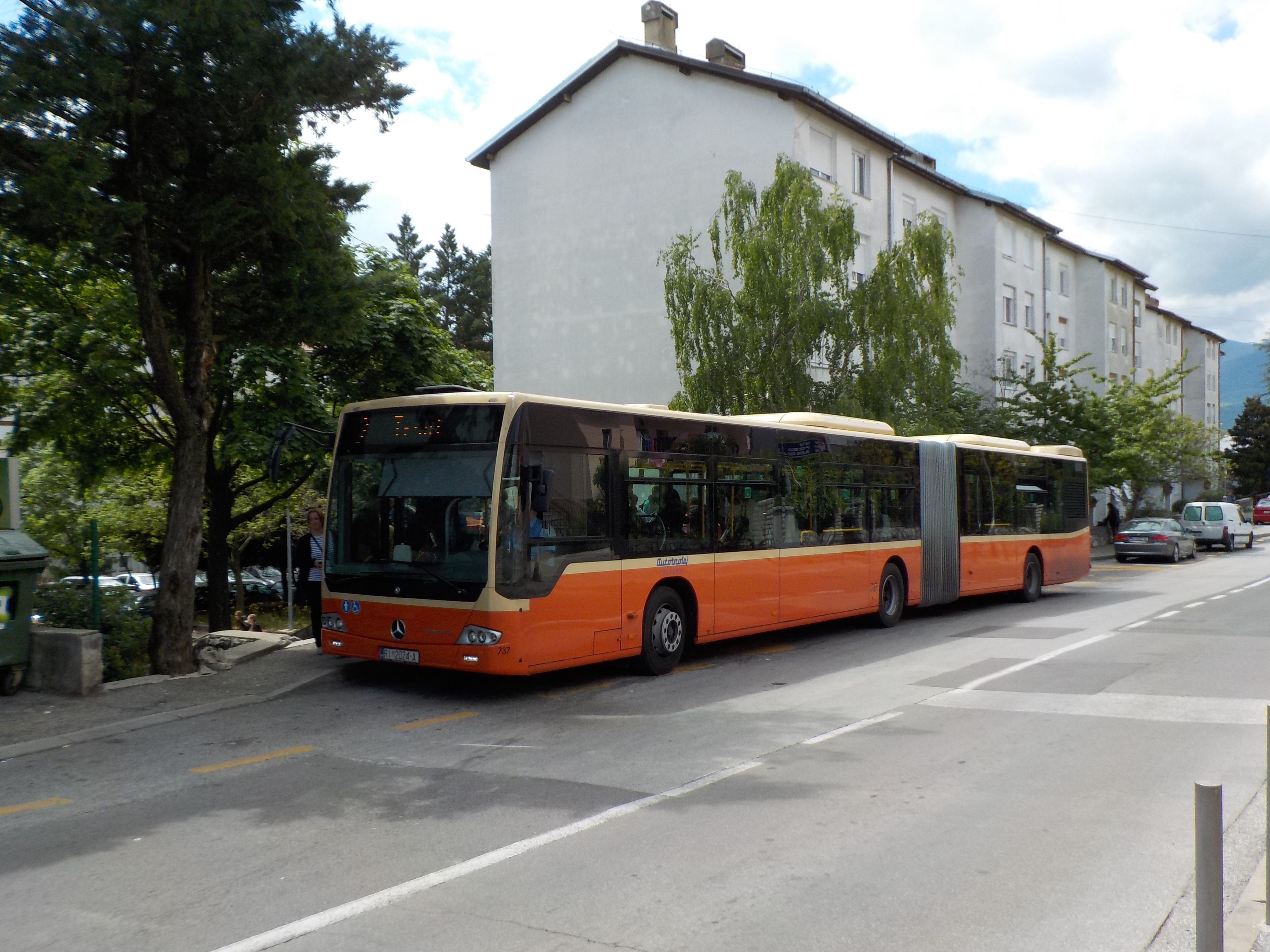 Mercedes - Benz Conecto bus in Rijeka